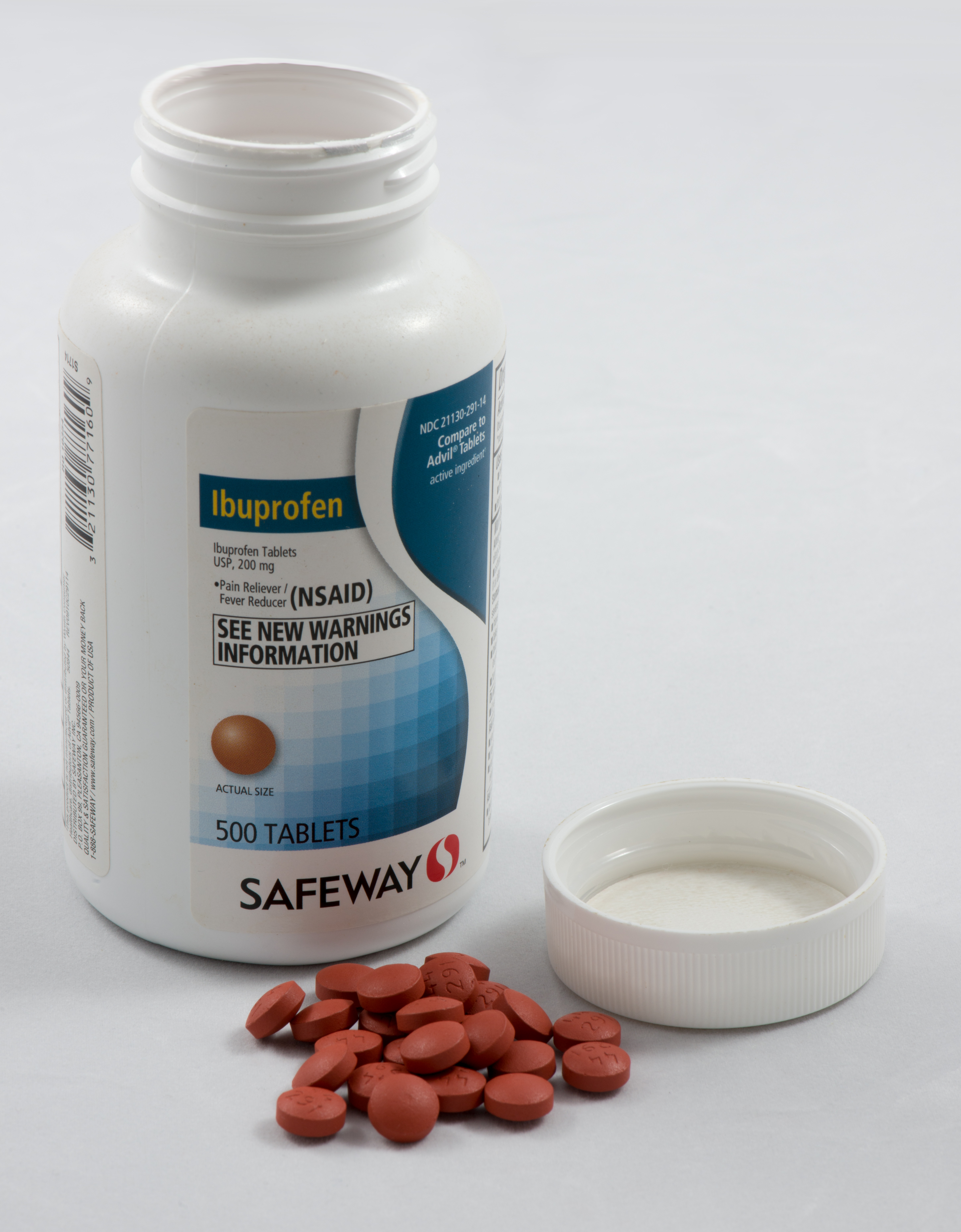 200 mg generic Ibuprofen from Safeway grocery store.